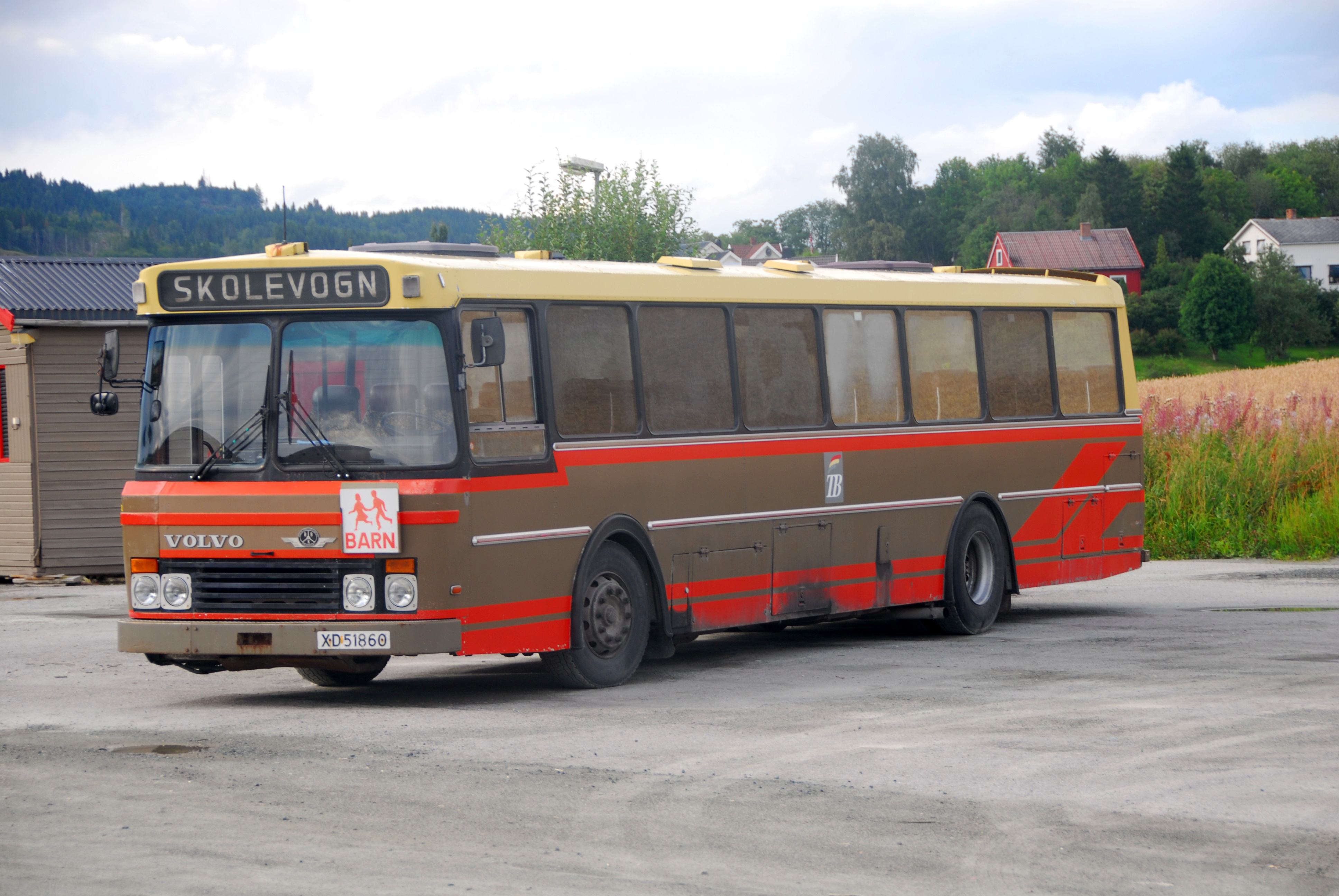 A TrønderBilene bus in the old paint scheme (used until the late 1980s) in Straumen, Inderøy, Norway.